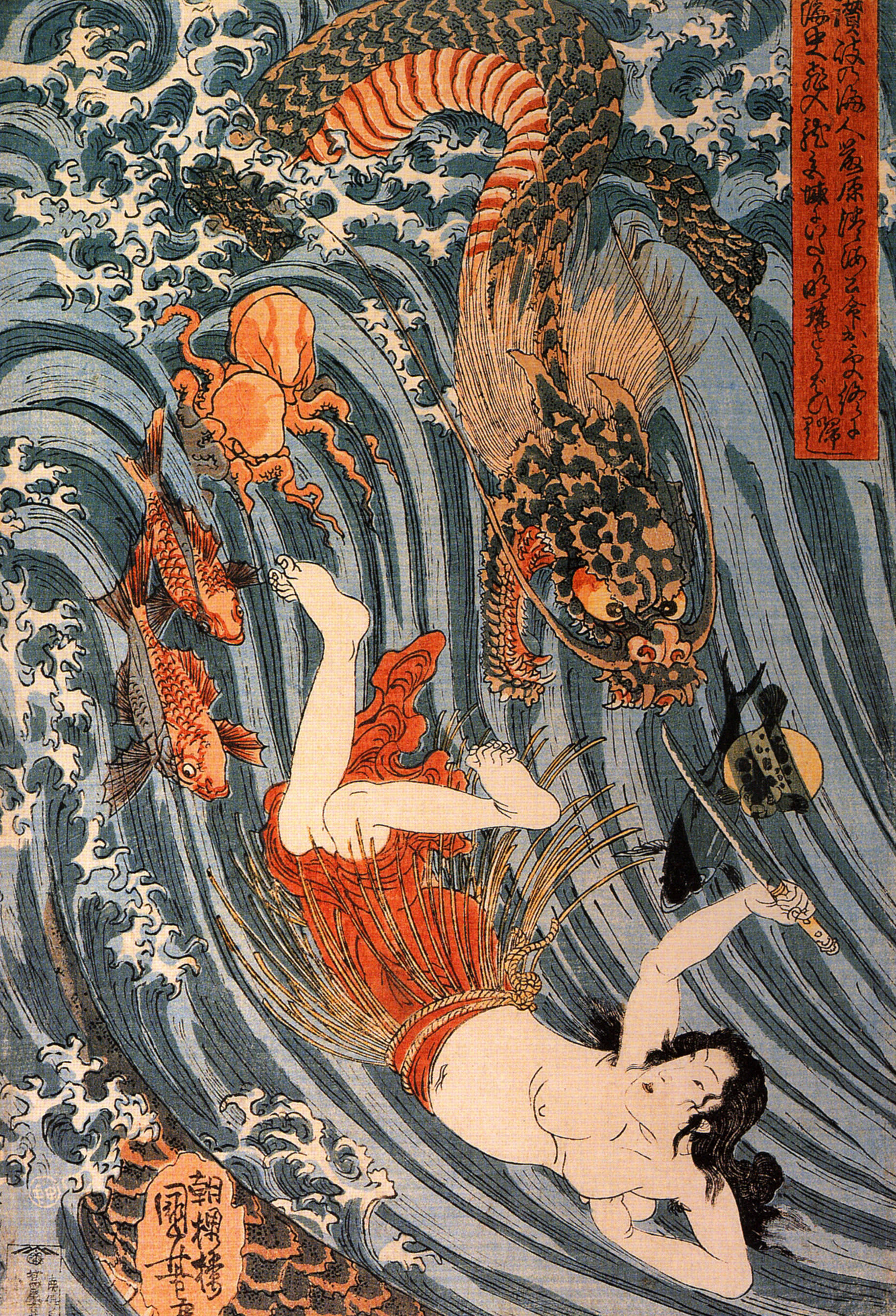 Tamatora has recovered the pearl from the palace on the Dragon king, while she was threatened by all sea creatures.